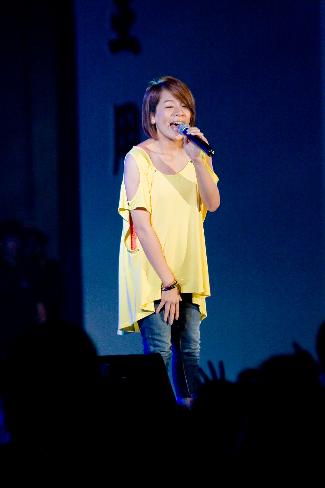 Maggie Chiang at the 2010 Dayeh University Graduation Concert.